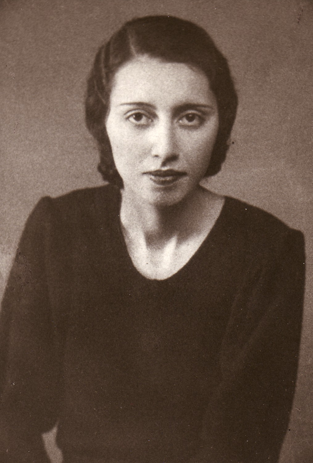 Teymourtash, myself, public domain